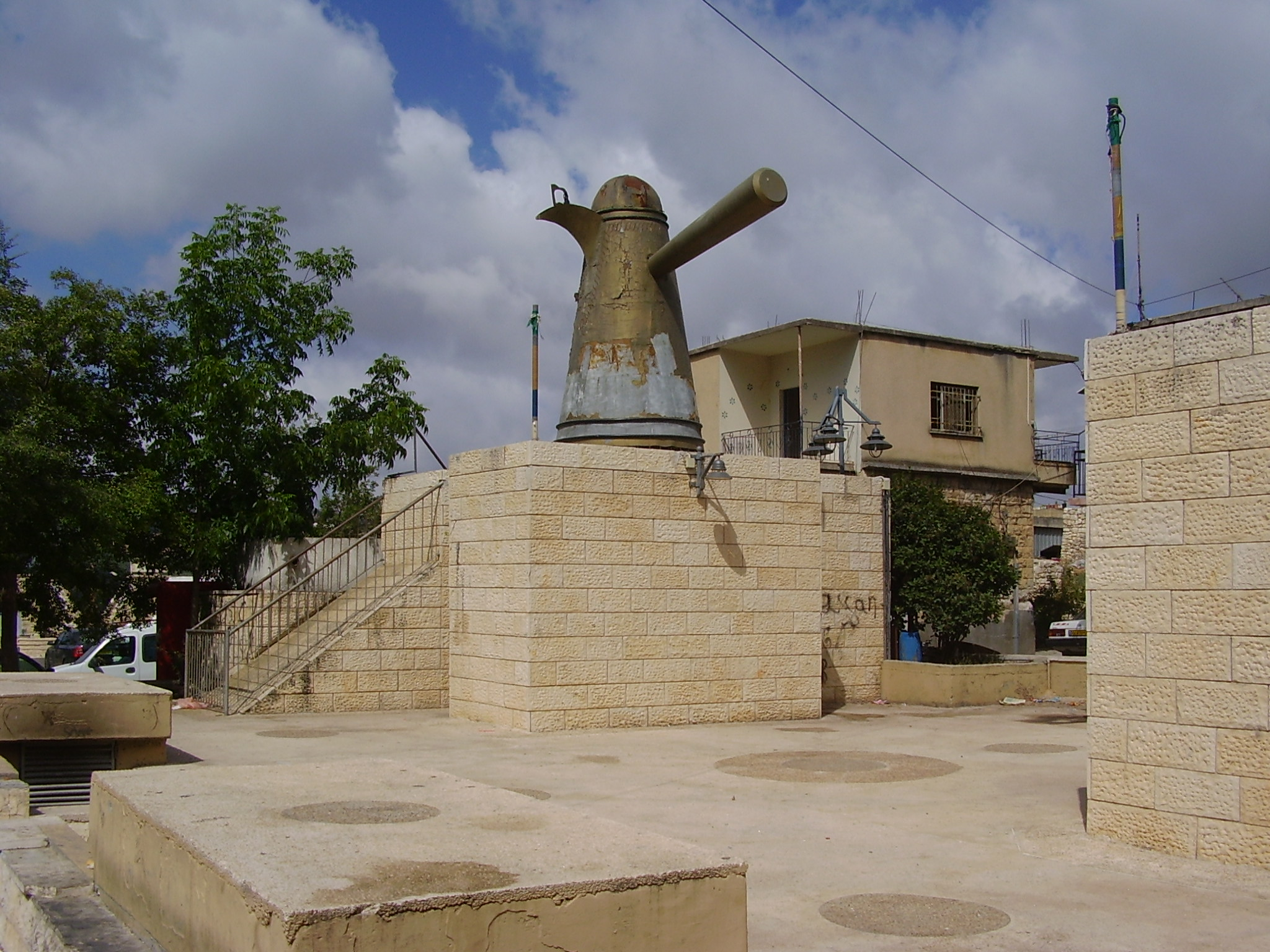 finjan sculpture in peki\'in